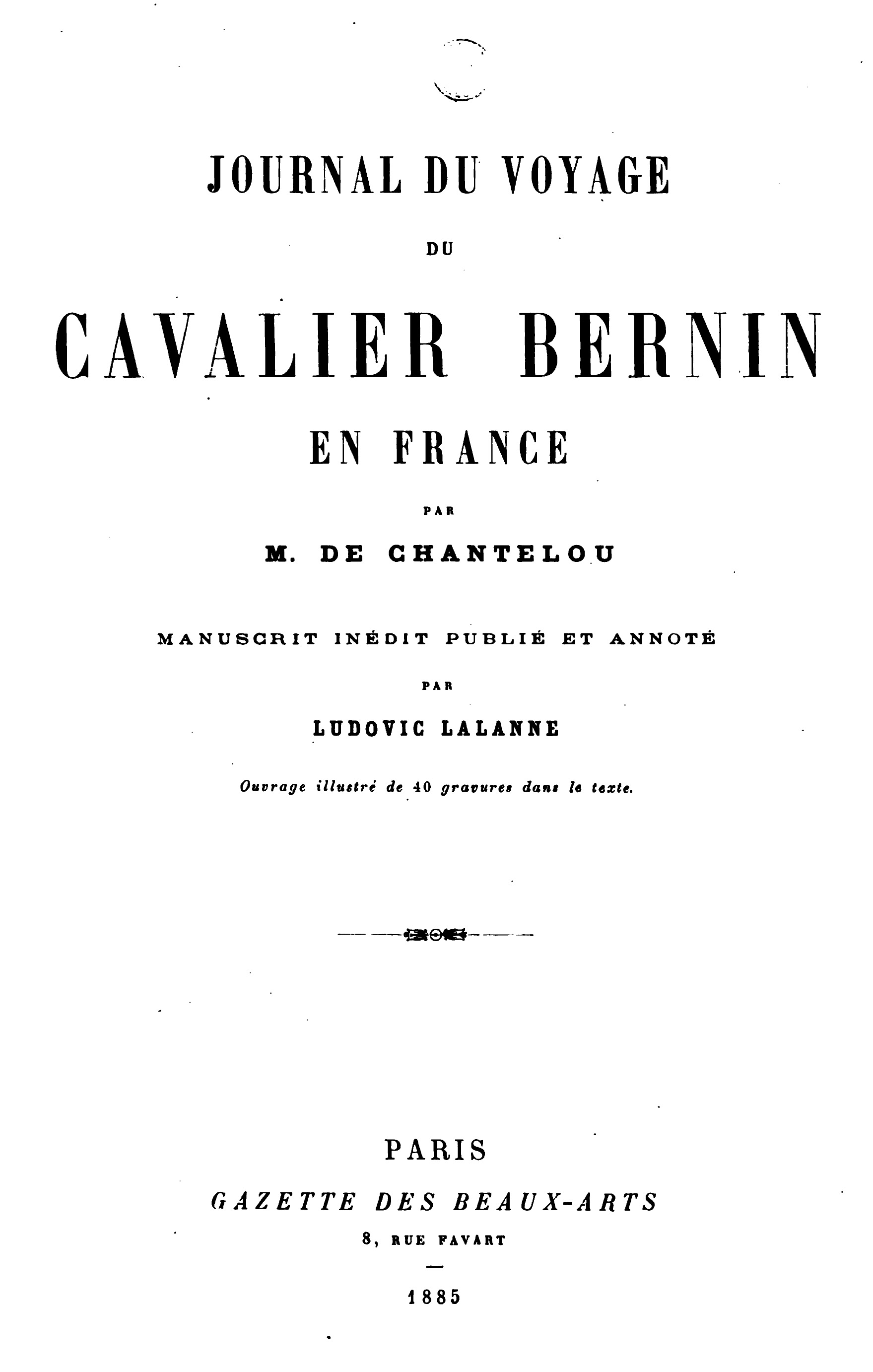 Title page of Journal du voyage du cavalier Bernin en France par M. de Chantelou, manuscrit inédit publié et annoté par Ludovic Lalanne